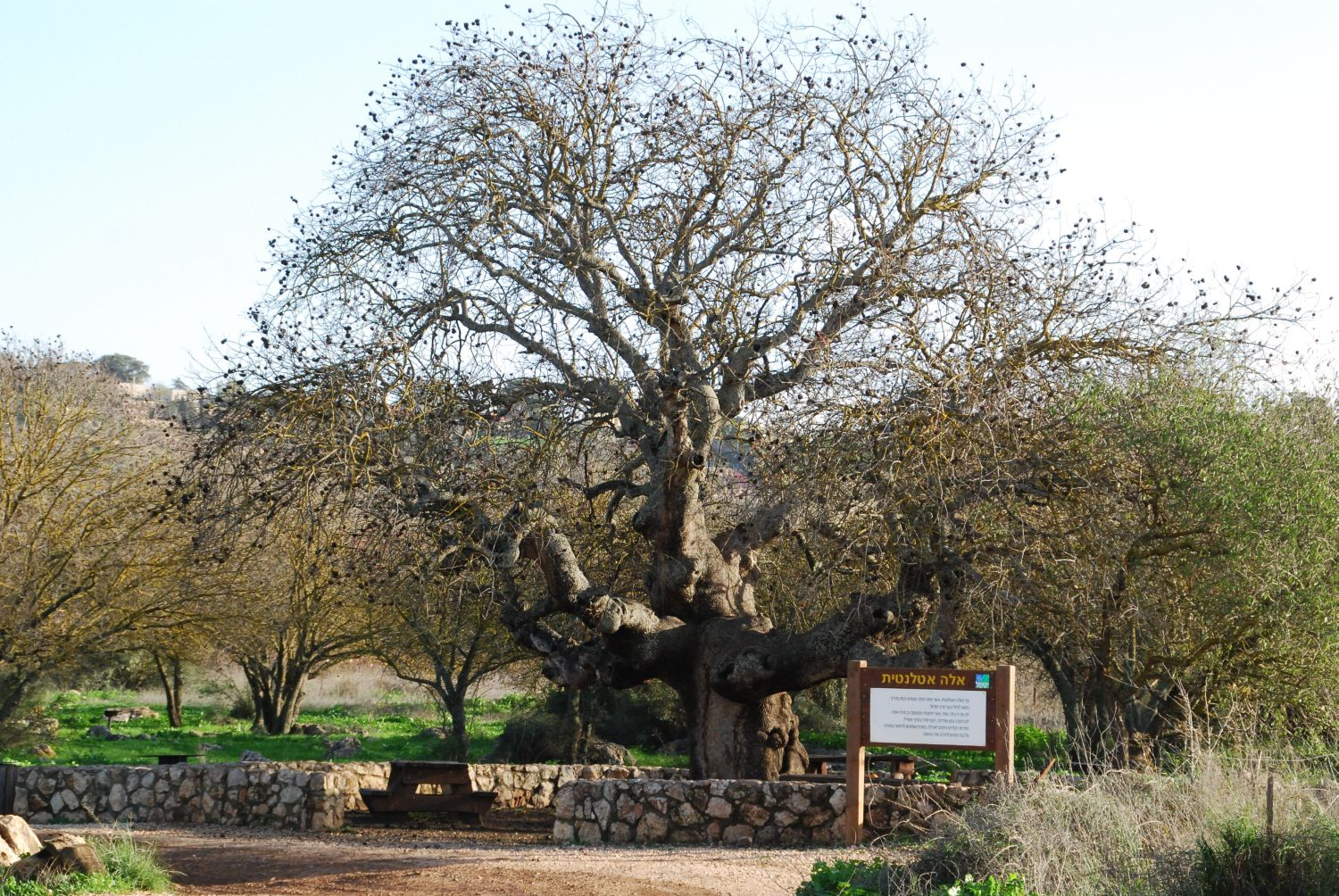 nabi yesha forest, Plants of Israel